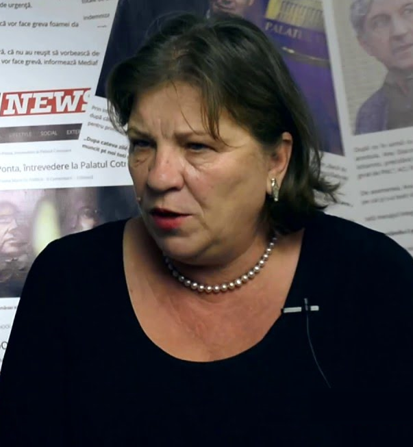 Norica Nicolai